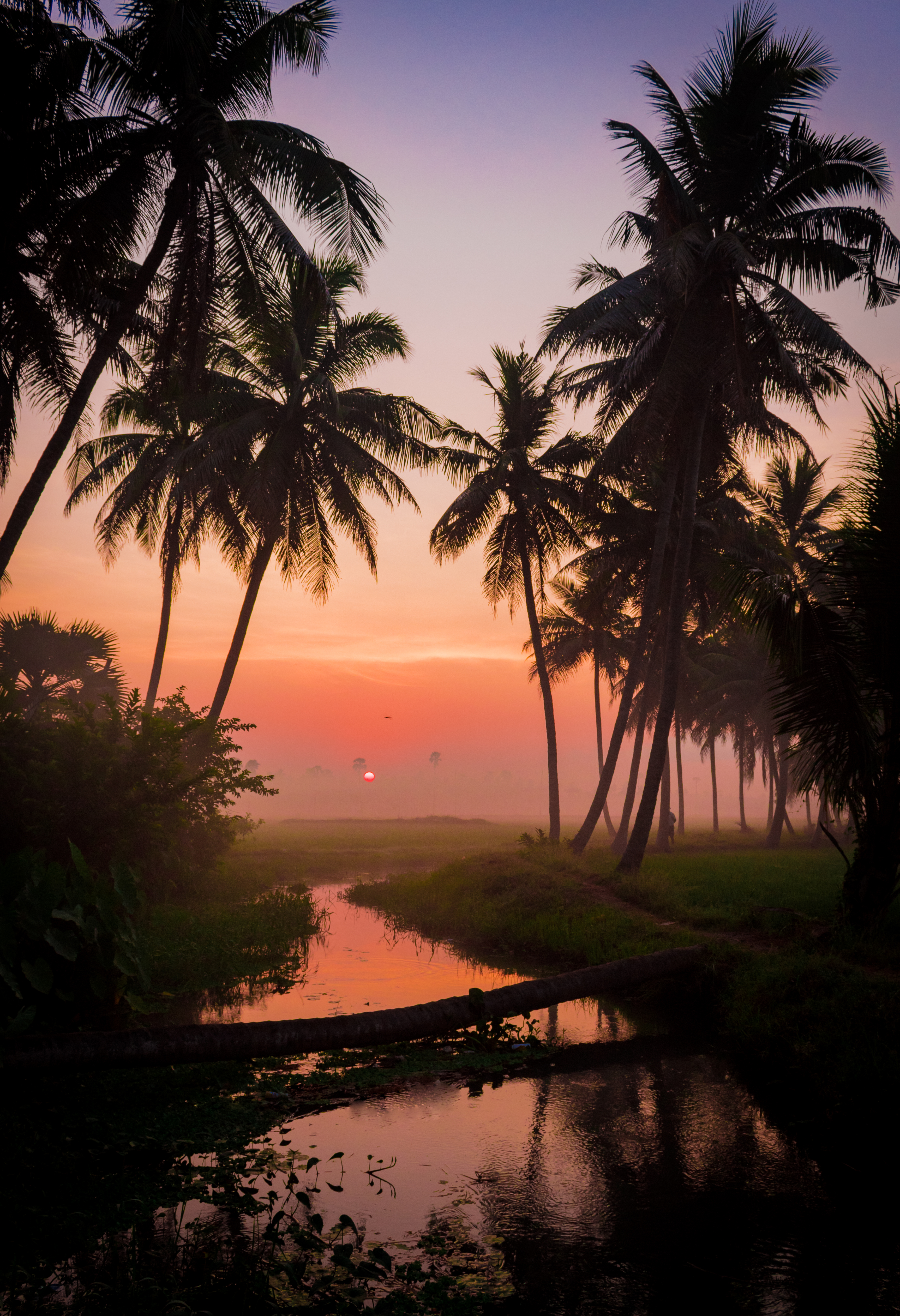 A lift irrigation canal during sunrise at Kondepudi, West Godavari